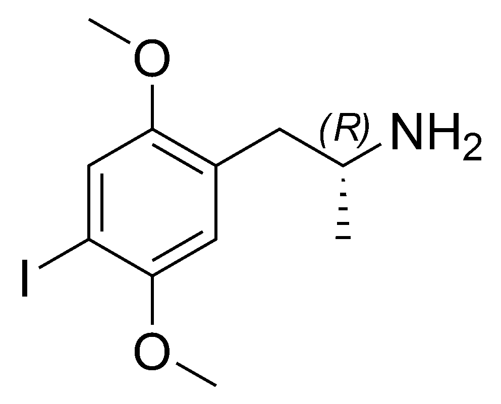 chemical structure of DOI